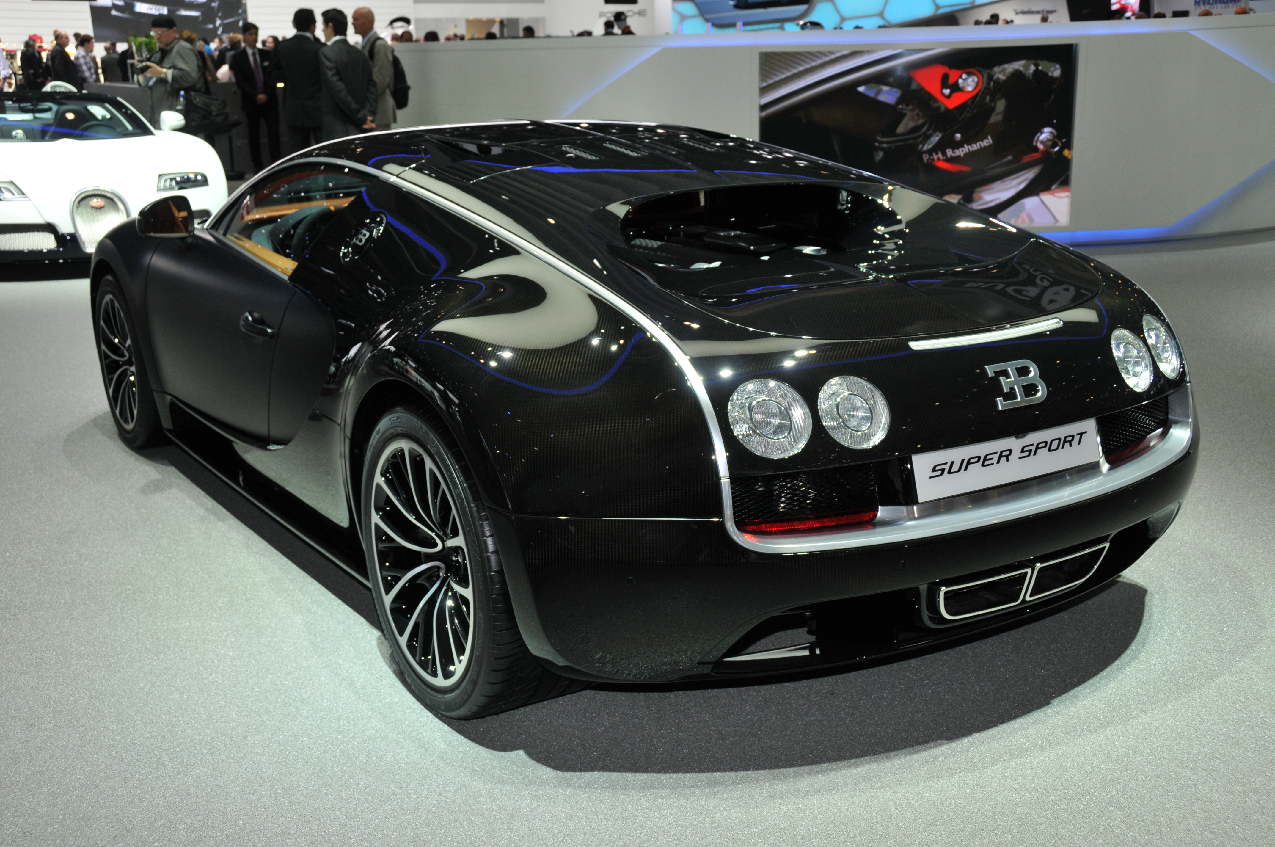 The Bugatti Veyron Super Sport at the Geneva Motor Show 2011. More pictures and info